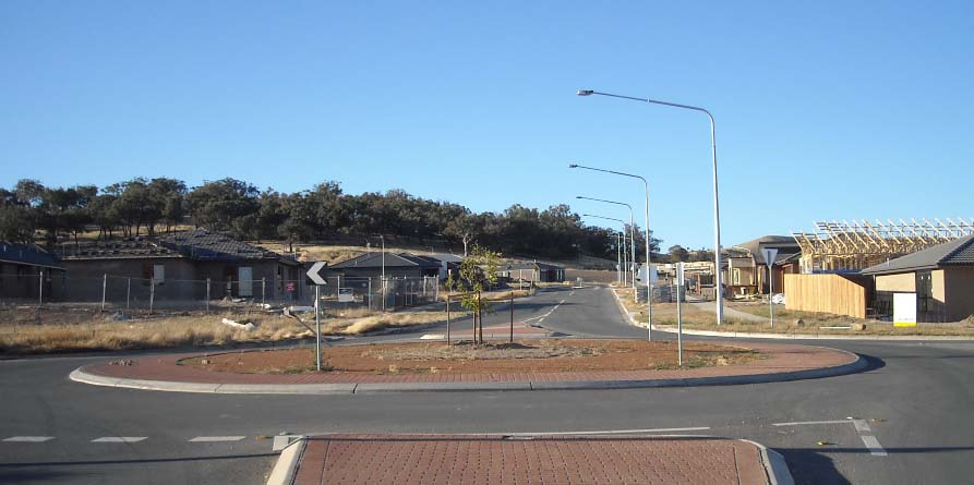 Casey Roundabout